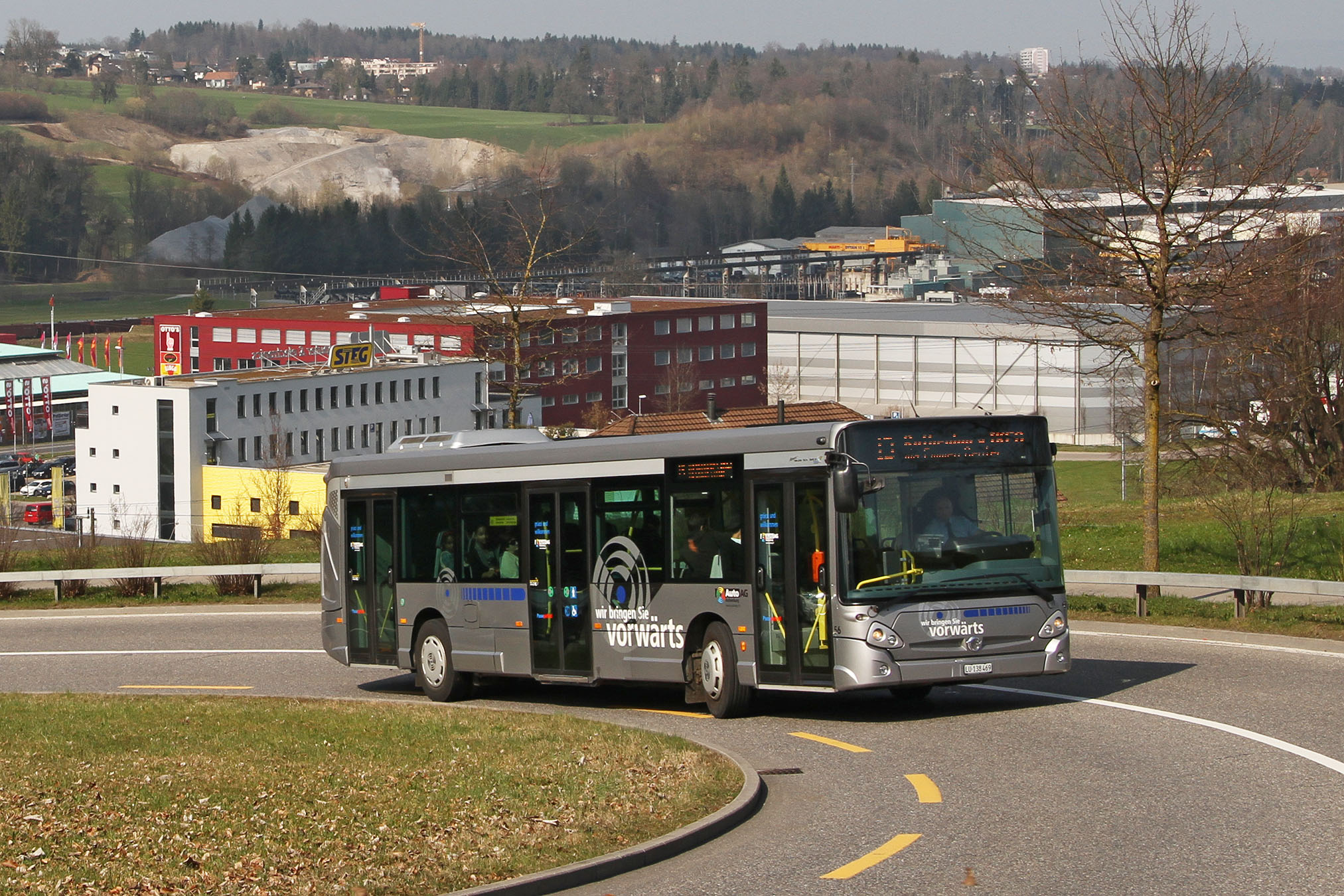 Auto AG Rothenburg's Heuliez GX 327 N° 56 on its way from Littau Bahnhof to Littau Dorf.